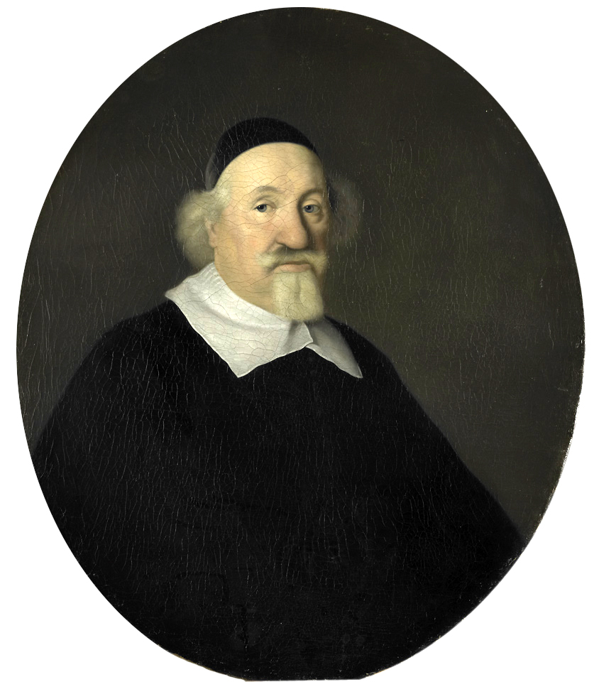 Portrait of Adriaen Besemer (1584-1659), elected in 1642 as director of the Rotterdam Chamber of the Dutch East India Company. After an unknown original. Bust, facing right, in an oval. Part of the Rotterdam VOC series, a series of portraits of directors of the Rotterdam Chamber of the Dutch East India Company executed for the Nieuw Oost-Indisch Huis, built in 1698, on Boompjes in Rotterdam.